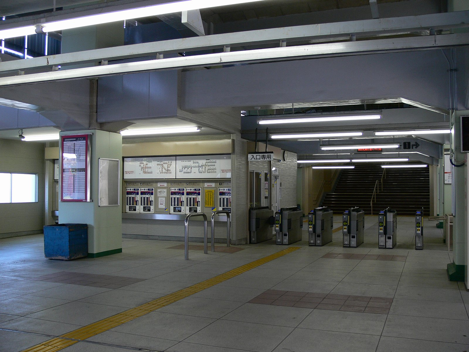 Keio-Tamagawa station,extra gate inside.京王多摩川駅